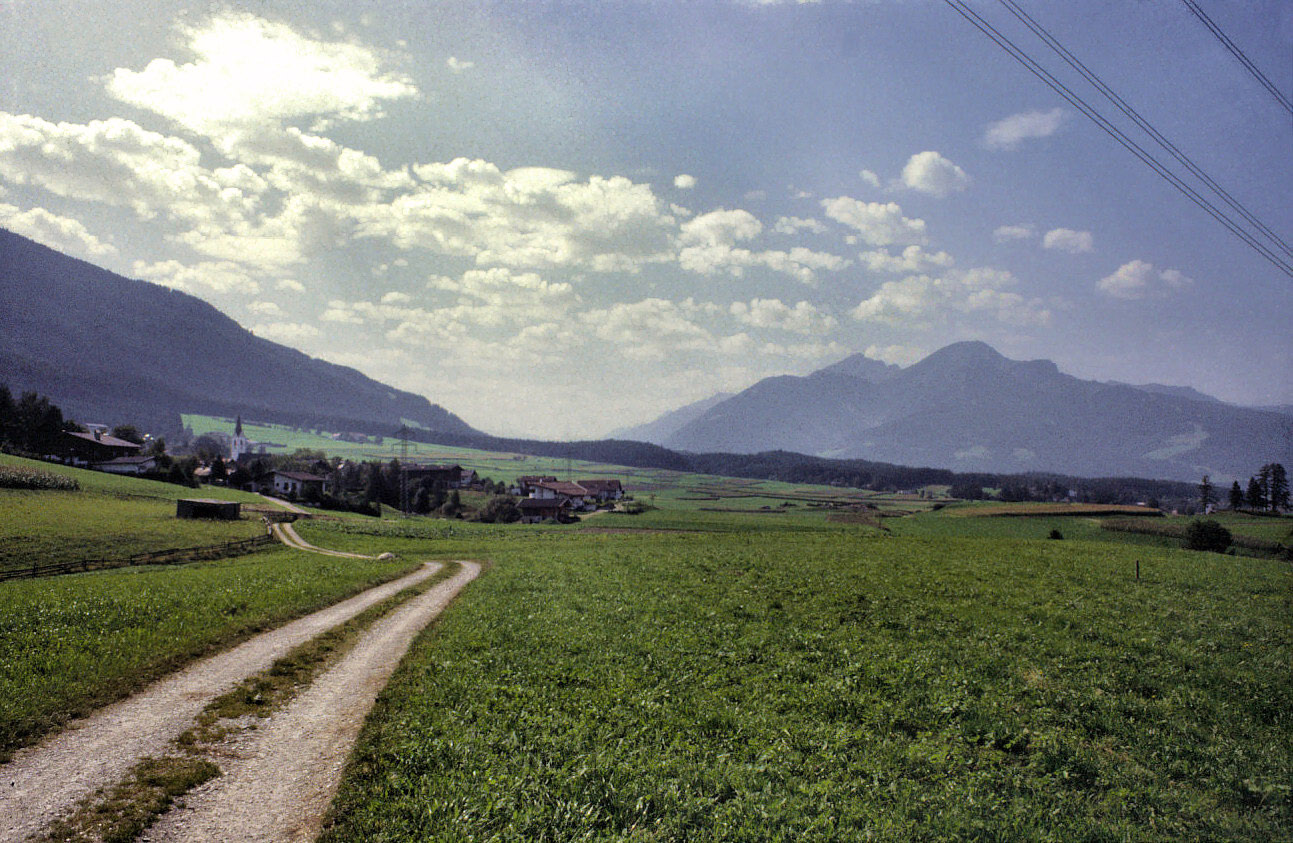 Sistrans, Tyrol, Austria